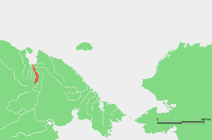 location map